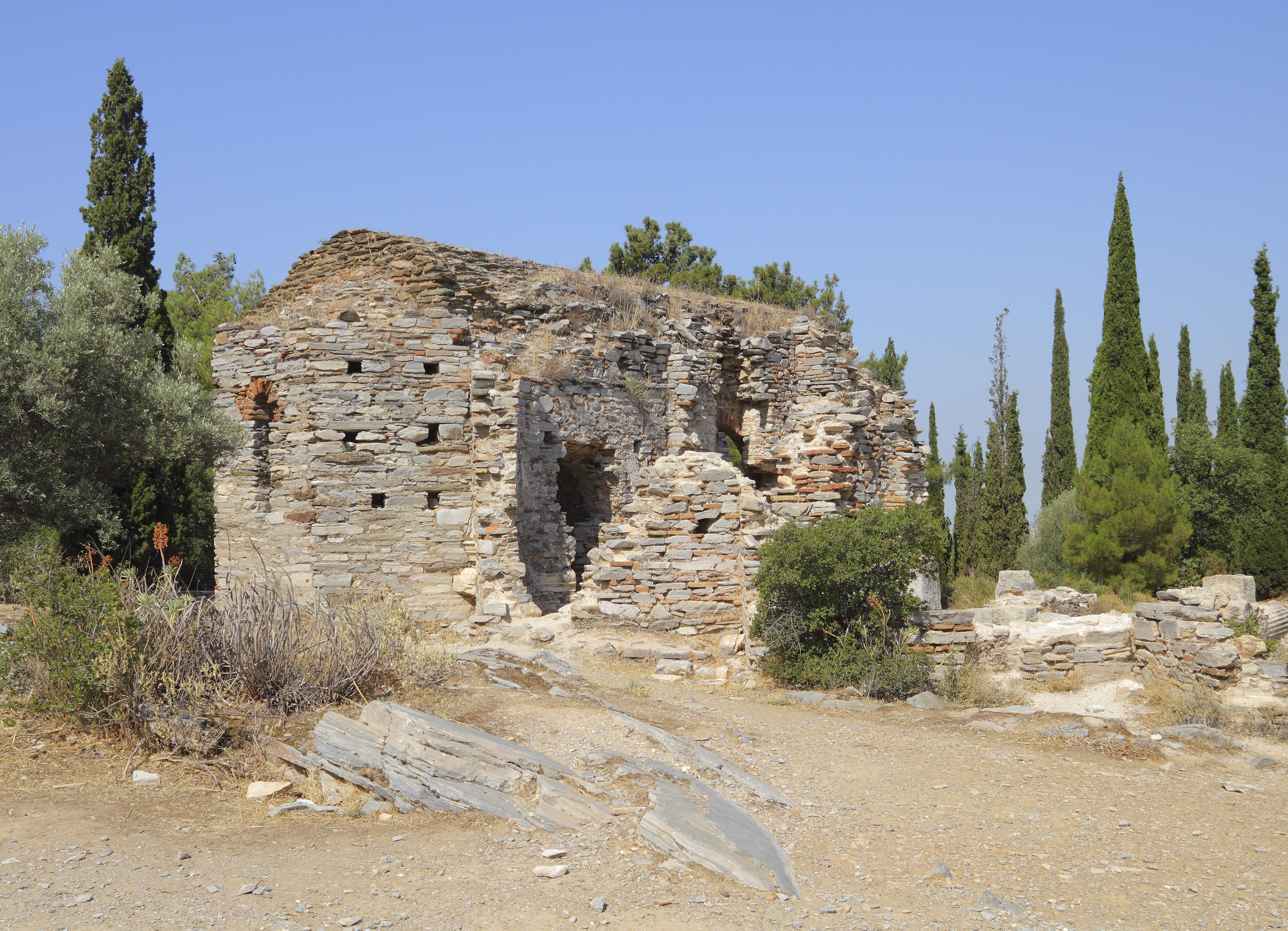 Ruins of an early-christian basilica on Kaisariani Hill near Zografou (Attica, Greece)